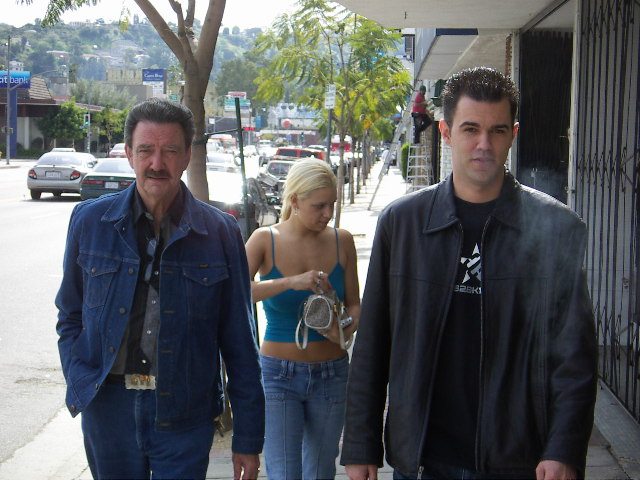 Porn star Mia Bangg flanked by agent Jim South and Jim South Jr. of the World Modeling Talent Agency